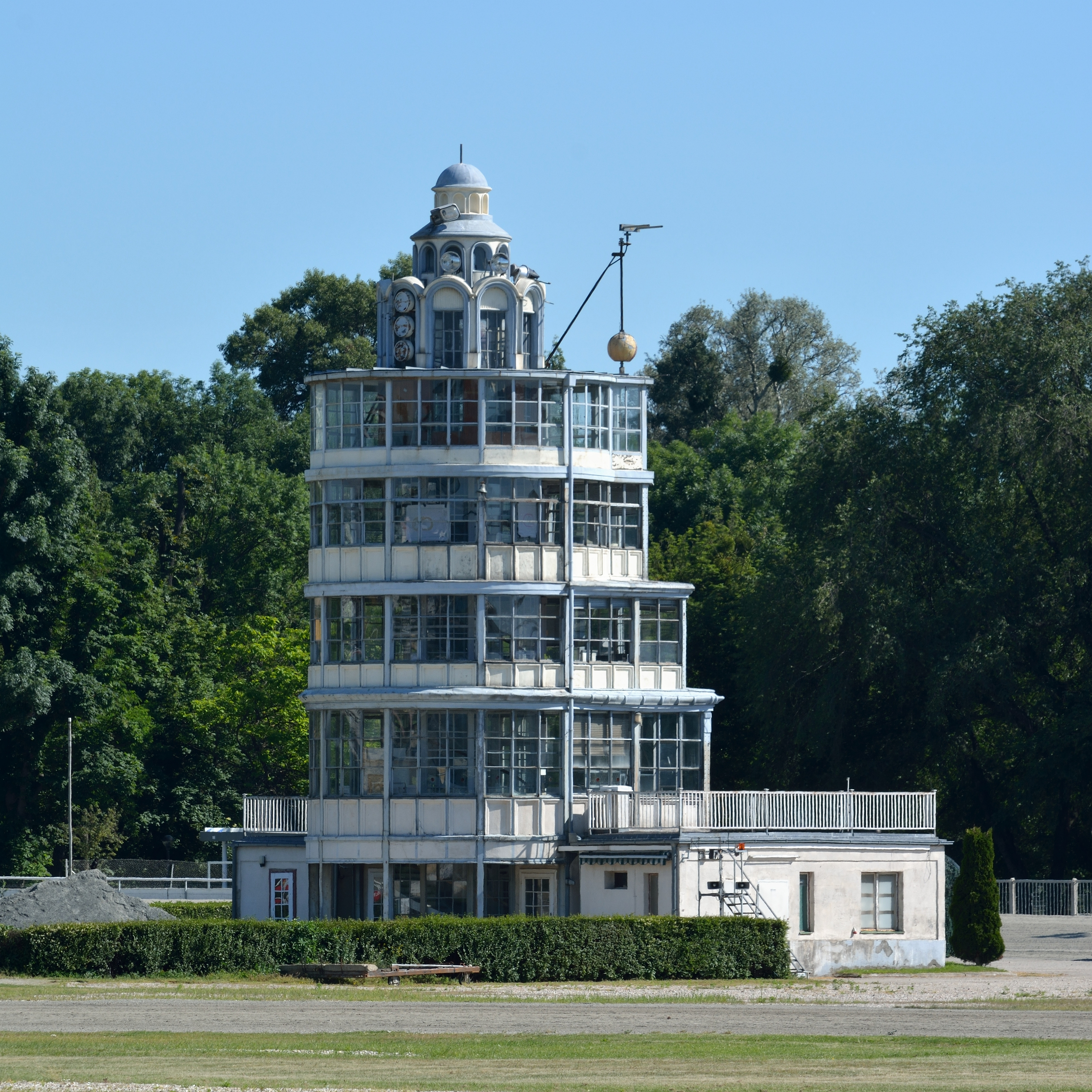 Trabrennbahn Krieau, placing judge tower, 2nd district of Vienna